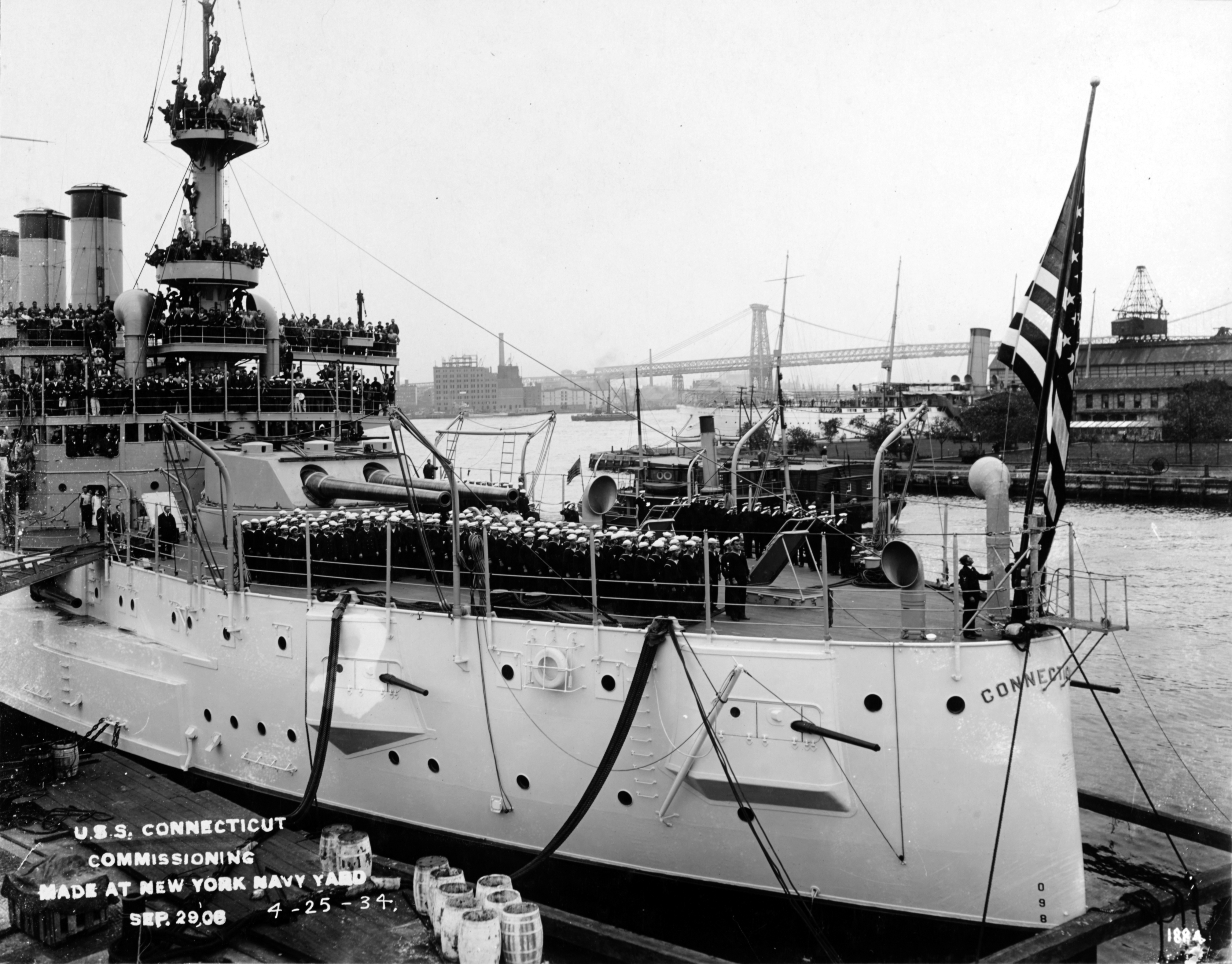 (Battleship # 18) The National Ensign is raised during commissioning ceremonies on the new battleship's after deck, at the New York Navy Yard, Brooklyn, New York, 29 September 1906. U.S. Naval History and Heritage Command Photograph.